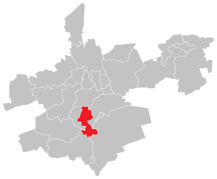 Location map of Olomouc district Nové Sady